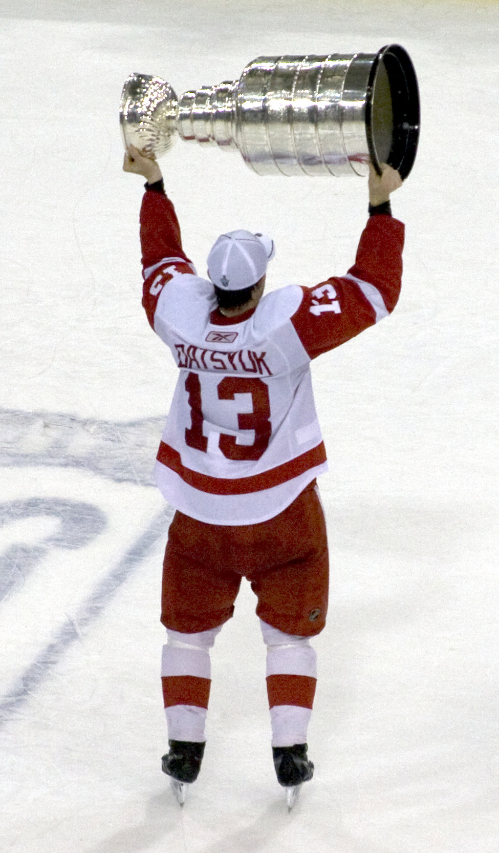 Pavel Datsyuk, Detroit Red Wings, holds the Stanley Cup